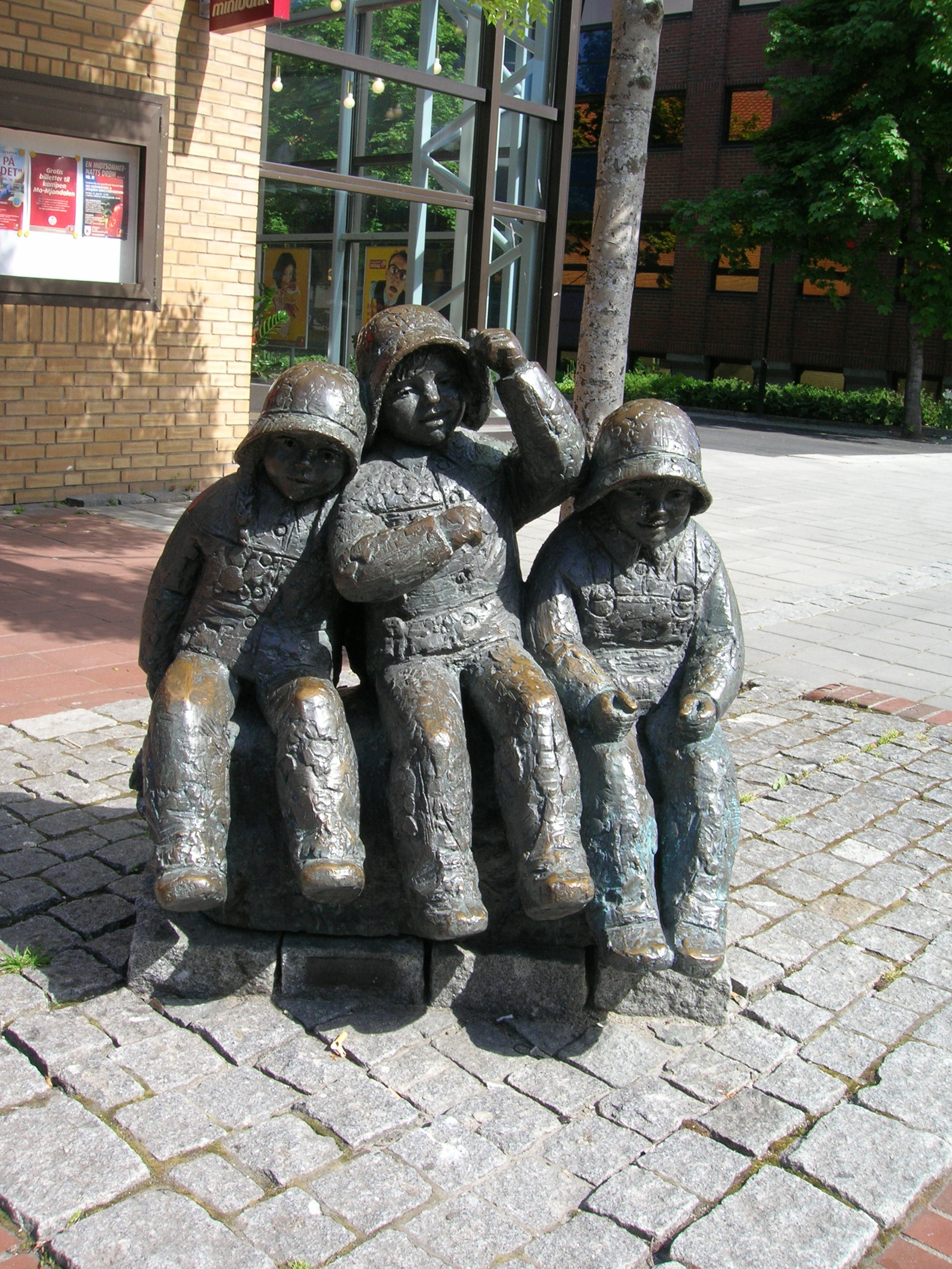 Statue of «Fiske korvan» (the fishing boys) in Mo i Rana, Nordland, Norway. Photo June 10, 2007 with a Nikon Coolpix 5600 5,1 Megapixel camera.